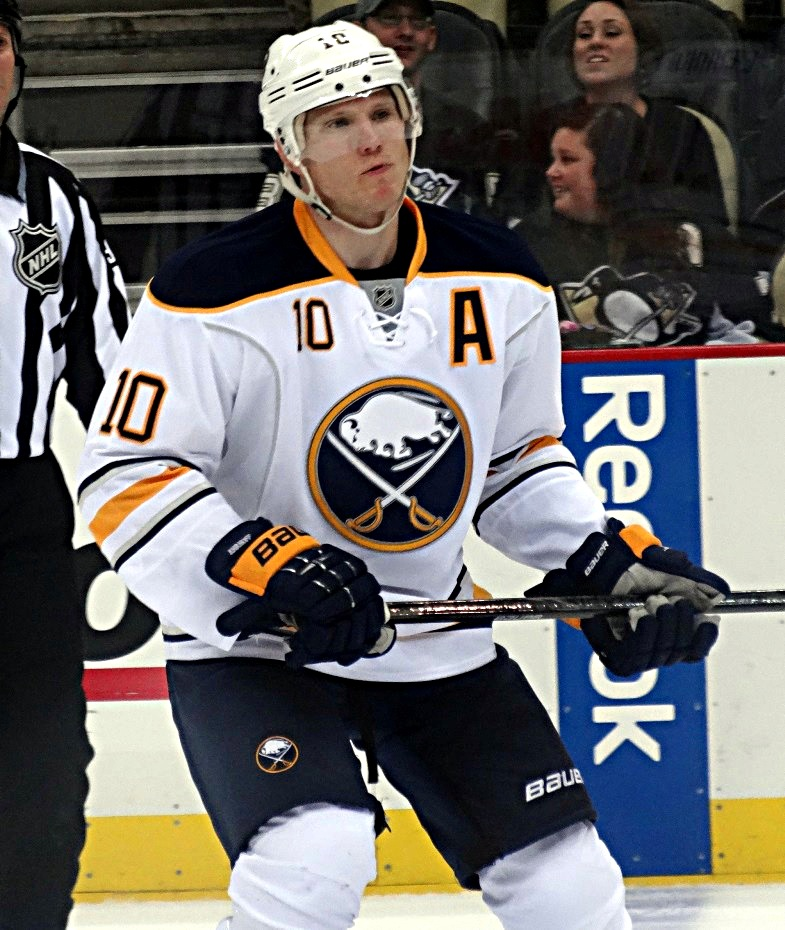 Buffalo Sabres defenseman Christian Ehrhoff skates against the Pittsburgh Penguins, October 5, 2013, at Consol Energy Center in Pittsburgh, PA.